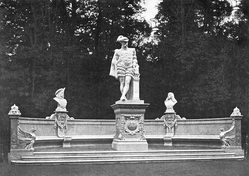 Monument group № 22 in the former Siegesallee in Berlin. The central monument commemorates Joachim Friedrich, Elector of Brandenburg. The bust on the left commemorates Count Hieronymus von Schlick, president of the Privy Council; the bust on the right Chancellor Johann von Loeben. Sculptor: Norbert Pfretzschner. The statue was unveiled on 26 October 1900.